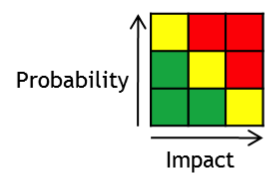 This is the box created by IPsi to demonstrate the probability and severity of risks that a company will face with their recommendations